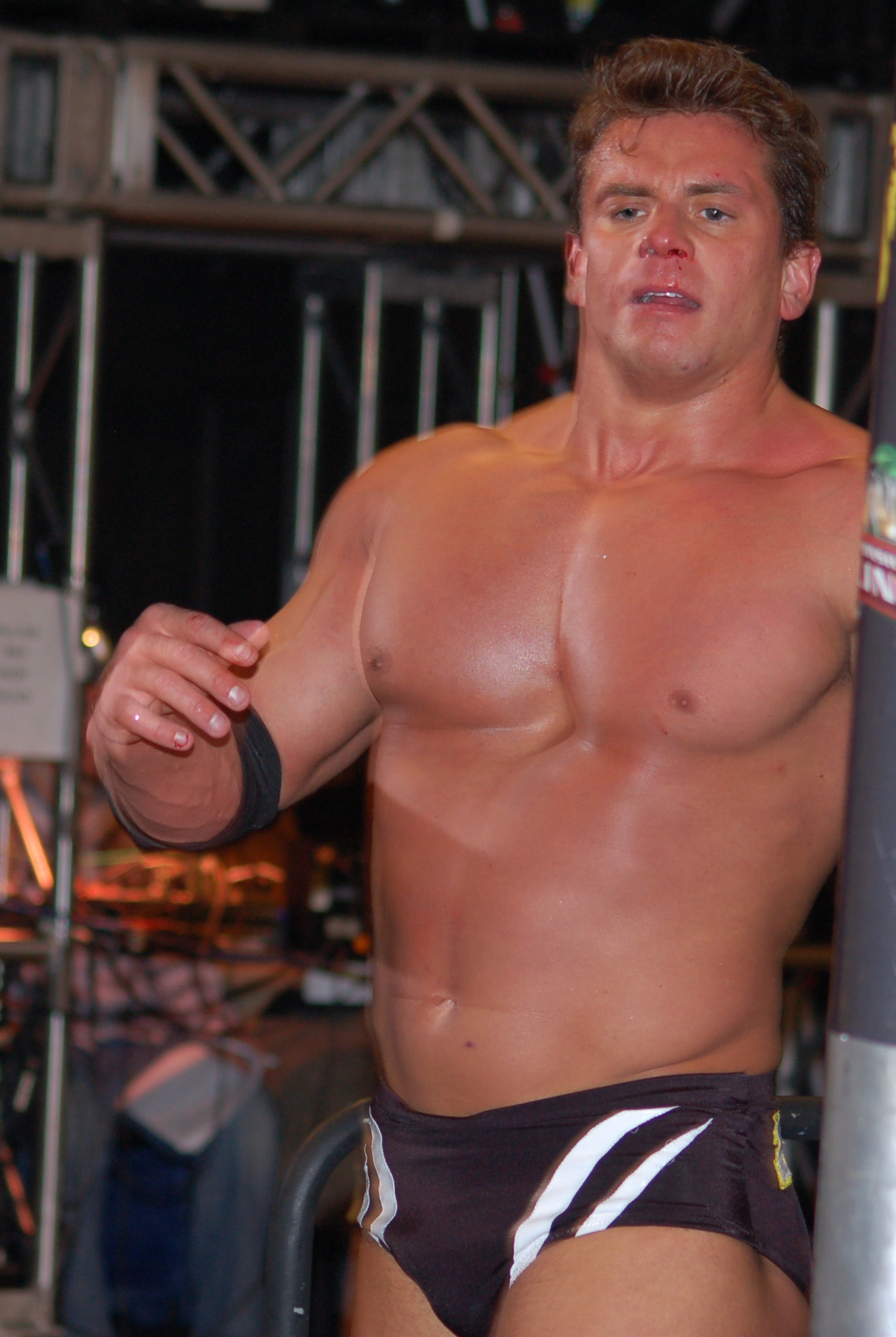 Photo I took of Alex Riley January 2010 in Tampa FL at the FCW arena.